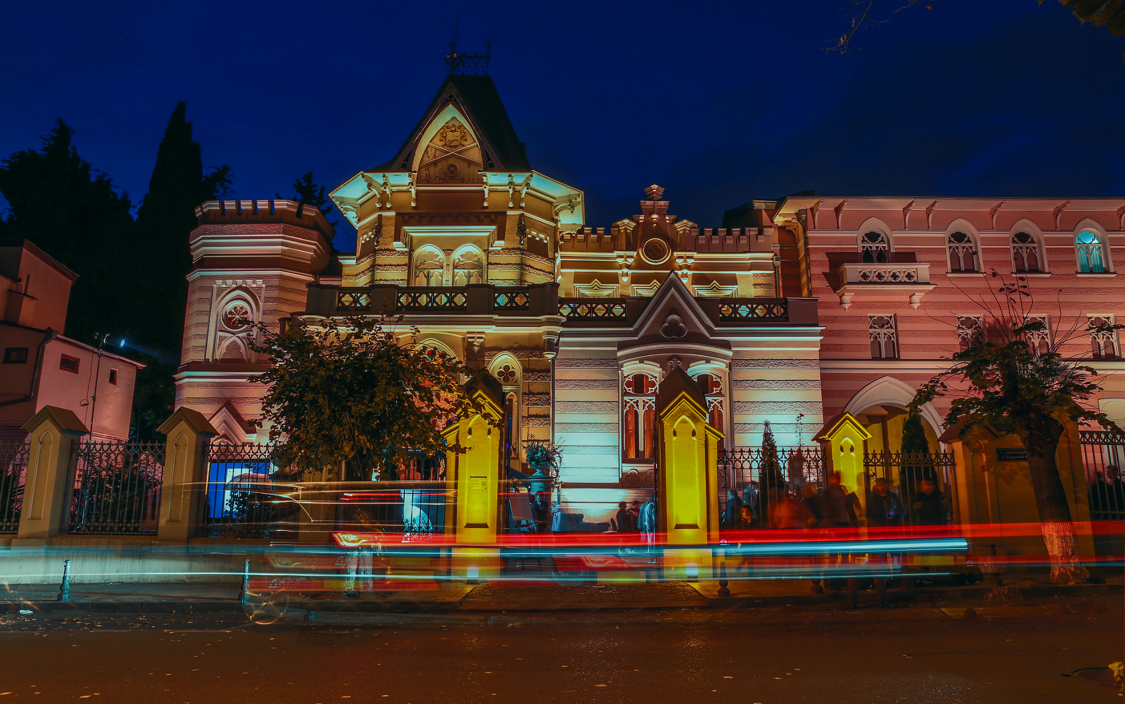 ღამე ხელოვნების სასახლის ფოტო